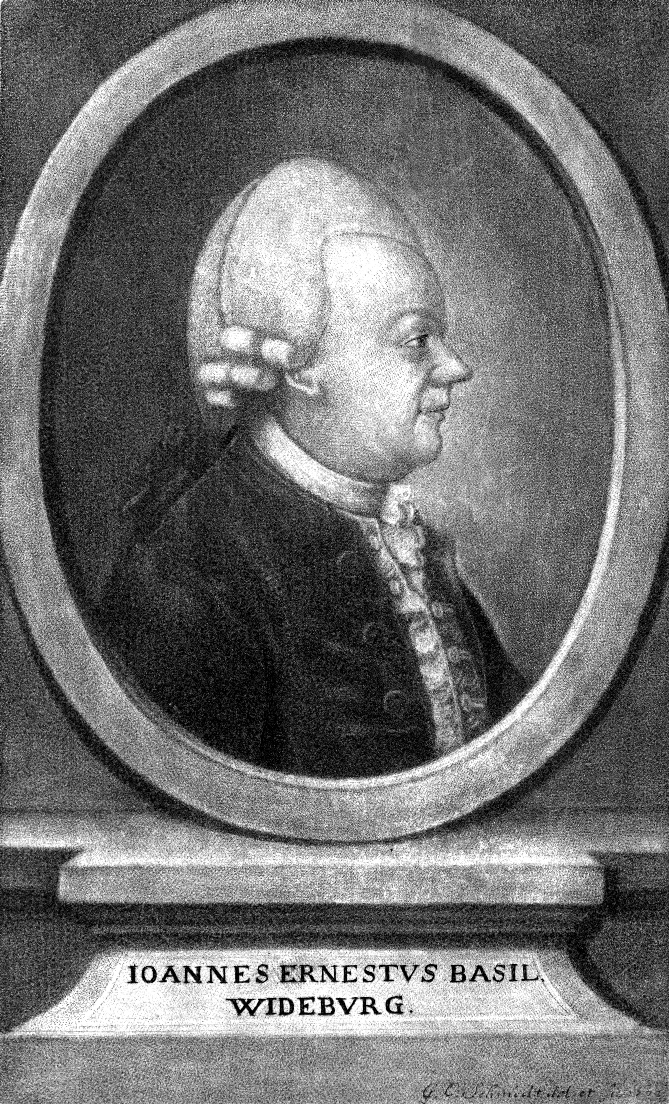 Johann Ernst Basilius Wiedeburg (1733-1789 ) german Physicist, Mathematician an Astronomer